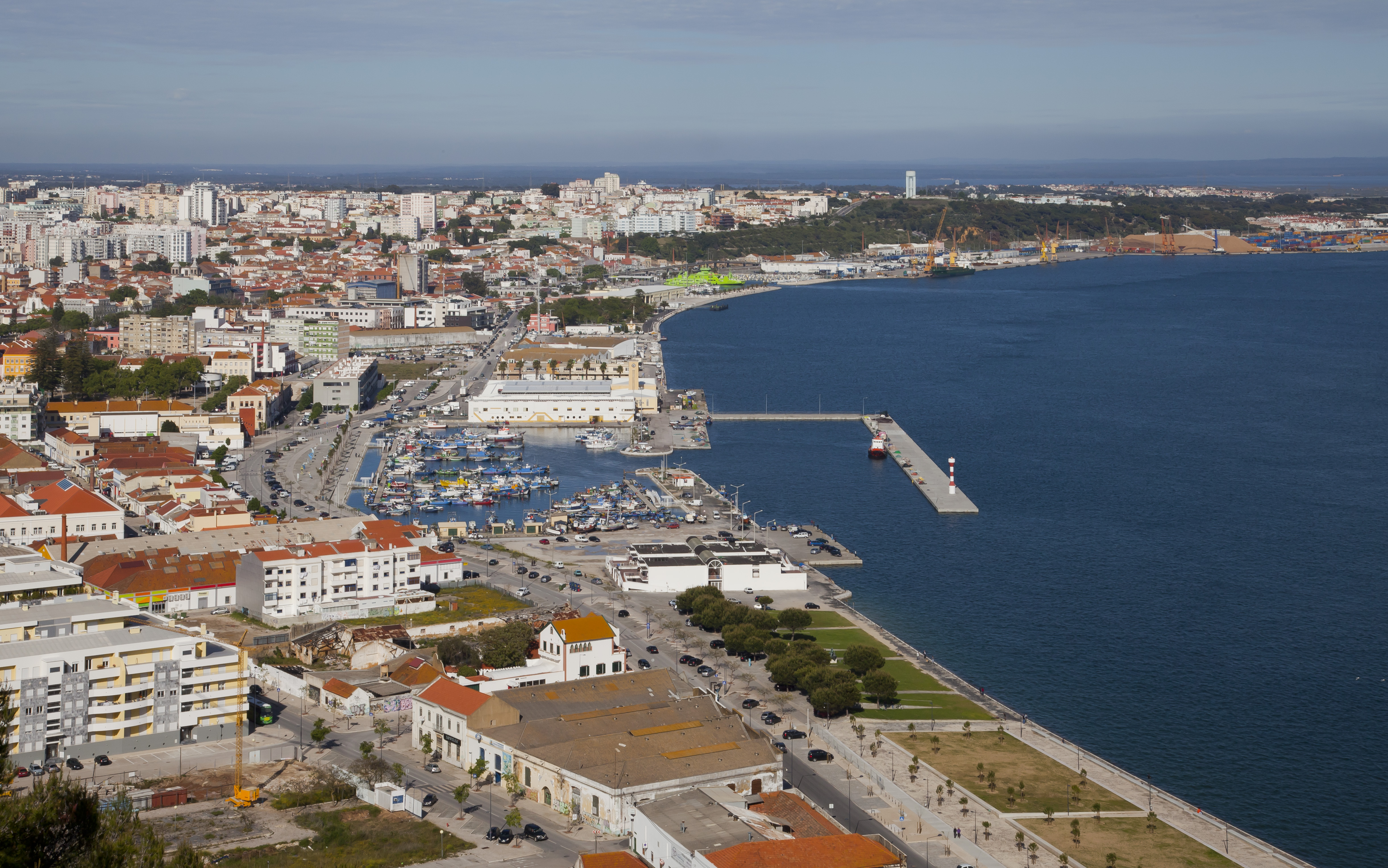 View of Setubal from the Fort of Saint Philip, Portugal